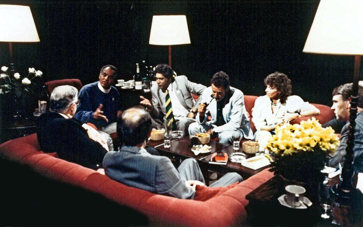 Television programme After Dark on 11th June 1988 with that evening's host Trevor Hyett and guests Harry Belafonte, Denis Worrall, Essop Pahad, Breyten Breytenbach, Nick Mitchell, Victoria Brittain and Ismail Ayob ("South Africa")